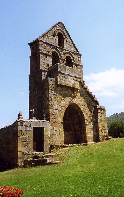 Church of Aldea de Ebro, in Cantabria (Spain) Romanesque church of San Juan Baptist, 13th century, in the municipality of Valdeprado del Río. Its plant has form of "L". The image shows the bell tower.